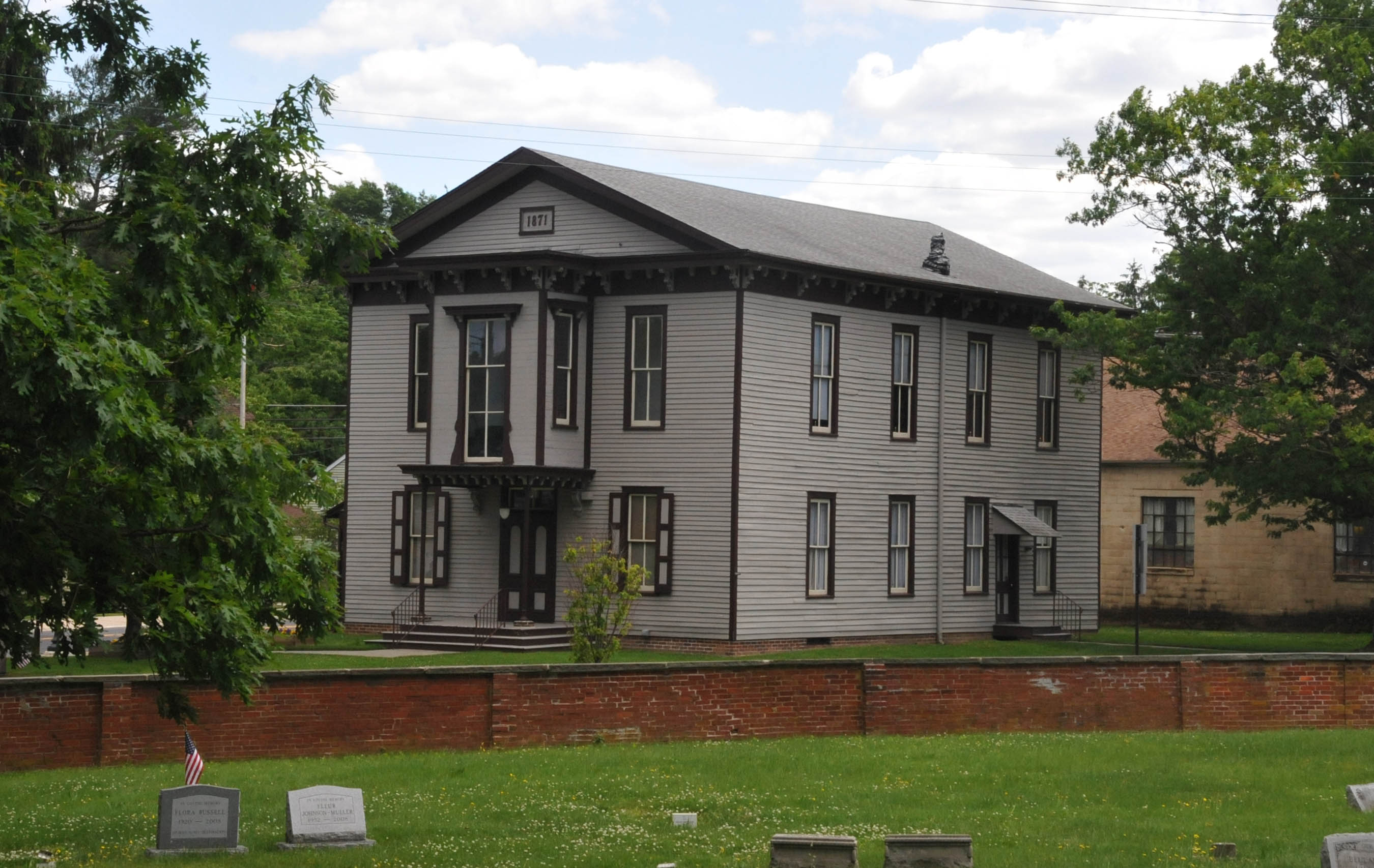 OLD TOWN HALL BUILT IN 1871 IS LISTED ON THE HISTORIC AMERICAN BUILDINGS SURVEY. IT IS NOW HOME TO THE HARRISON TOWNSHIP HISTORICAL SOCIETY